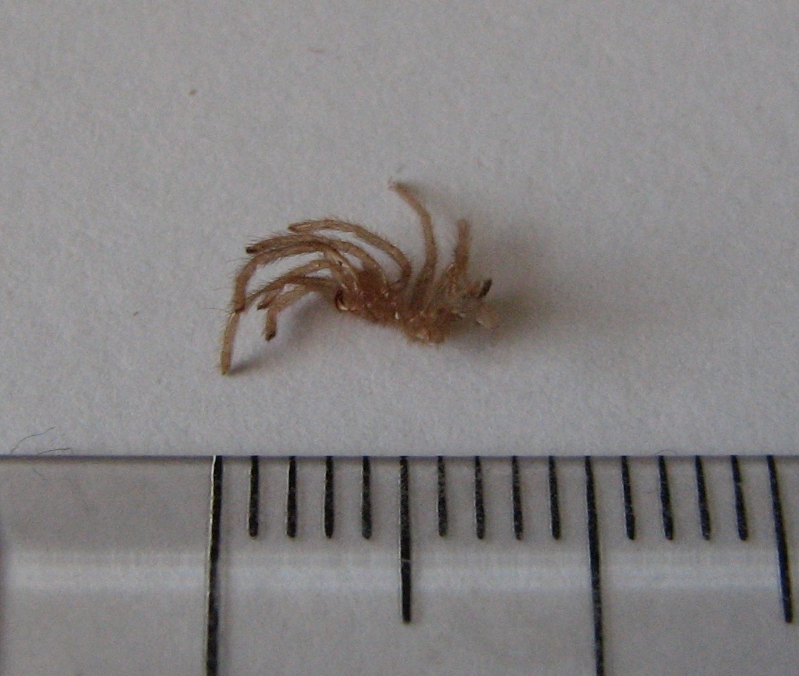 The molted skin of a baby Phormictopus cancerides cancerides (second molting) with a scale in millimetres.